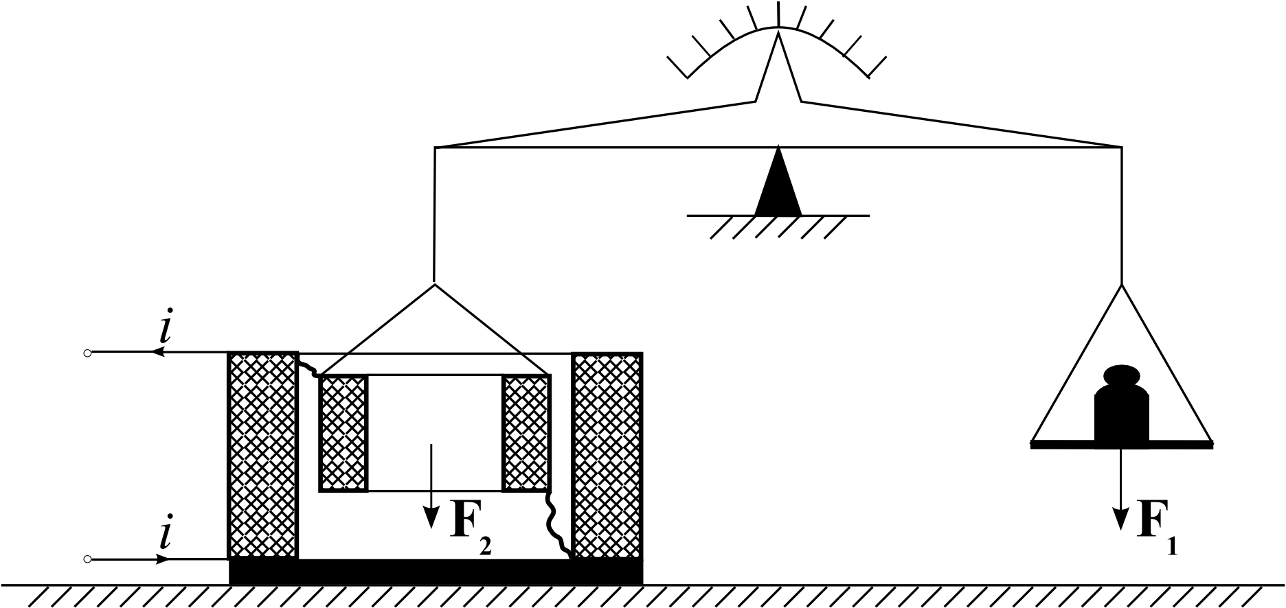 Picture shows current scales to create a model of current.